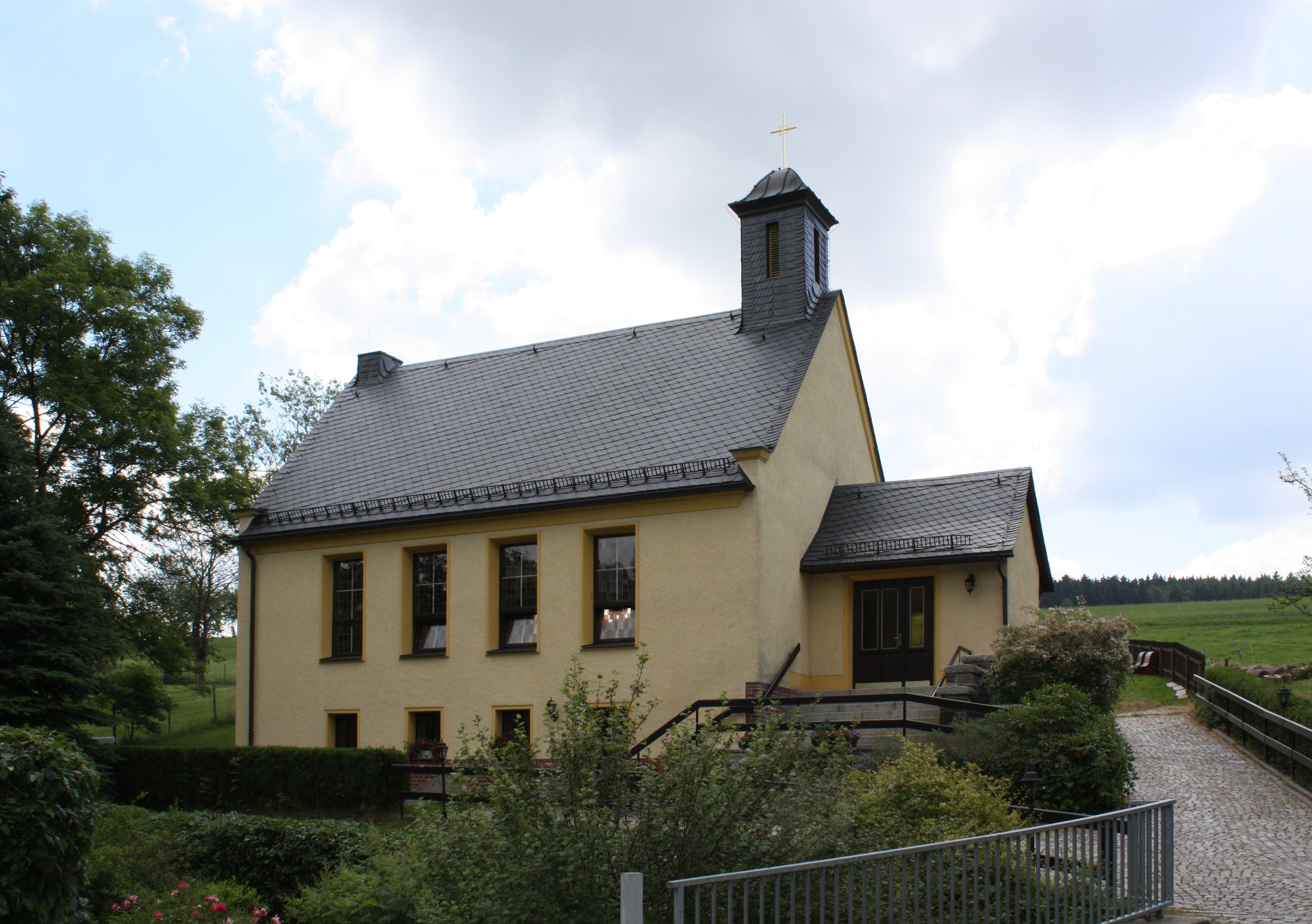 Affalter Church, Saxony, Germany